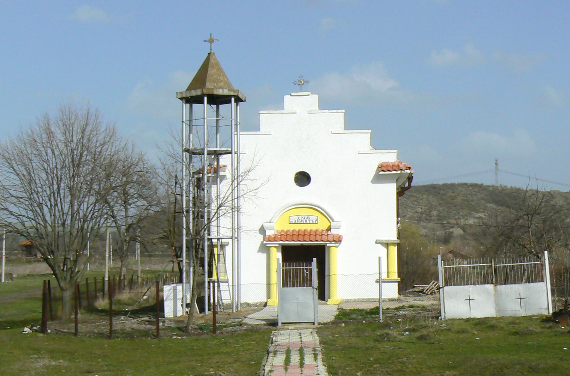 Church "Saint Dimitar" in village Zhelyazovo, Burgas District, Bulgaria